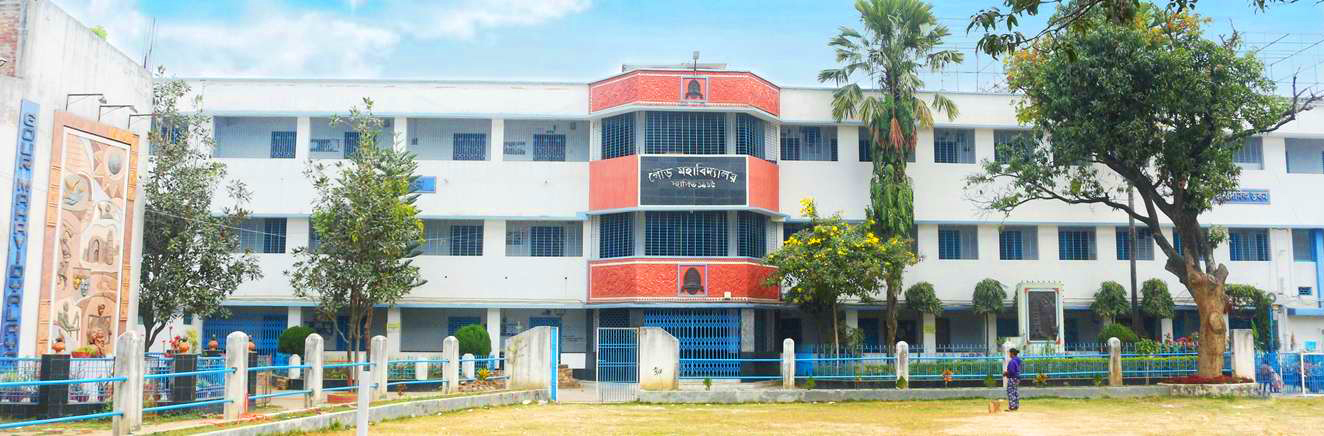 Gour Mahavidyalaya Landscape Skyline view